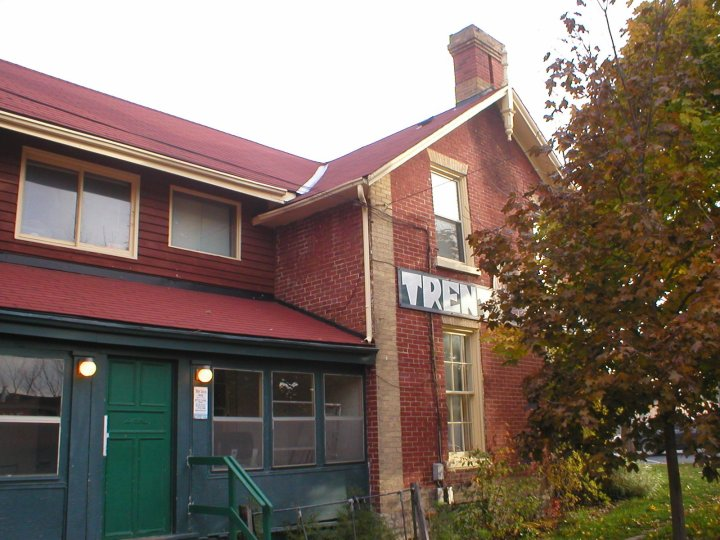 A photograph of Trent Radio House, broadcast center of CFFF-FM, at the corner of George and Parkhill in Peterborough, Ontario. Taken by GTD Aquitaine on November 3, 2005.